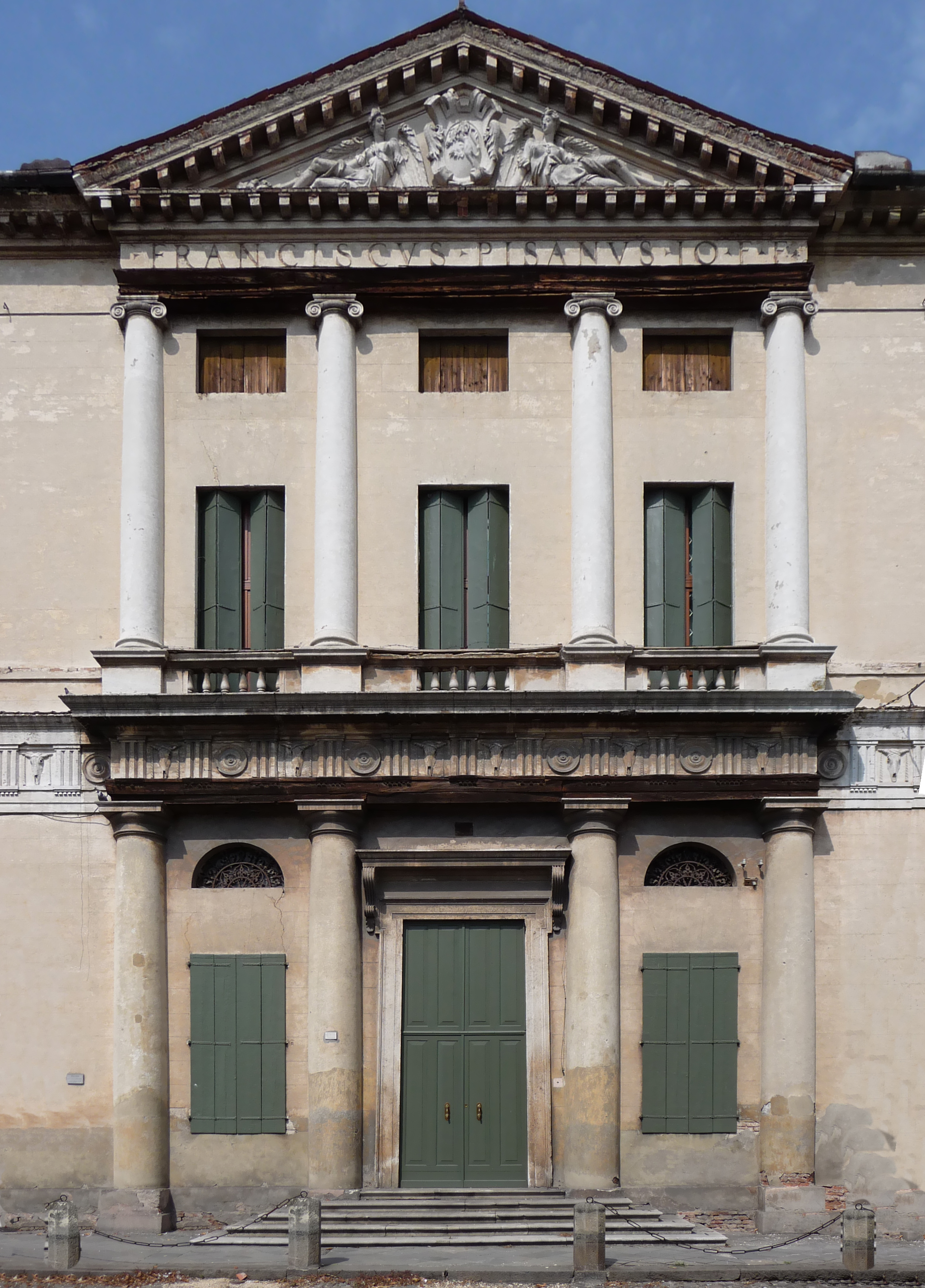 The Villa Pisani is a patrician villa outside the city walls of Montagnana, Veneto, northern Italy. (→Villa Pisani (Montagnana))